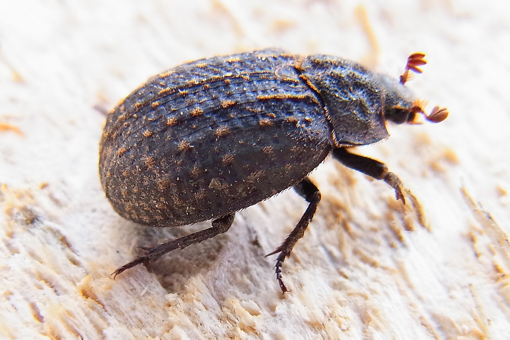 Trox sabulosus from Southern France near Belfast at 2013-04-15